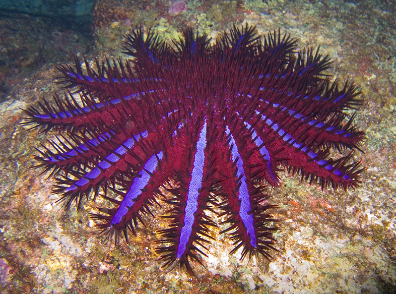 Crown of Thorns (Acanthaster planci planci). Koh Similan, Boulder City, Thailand.